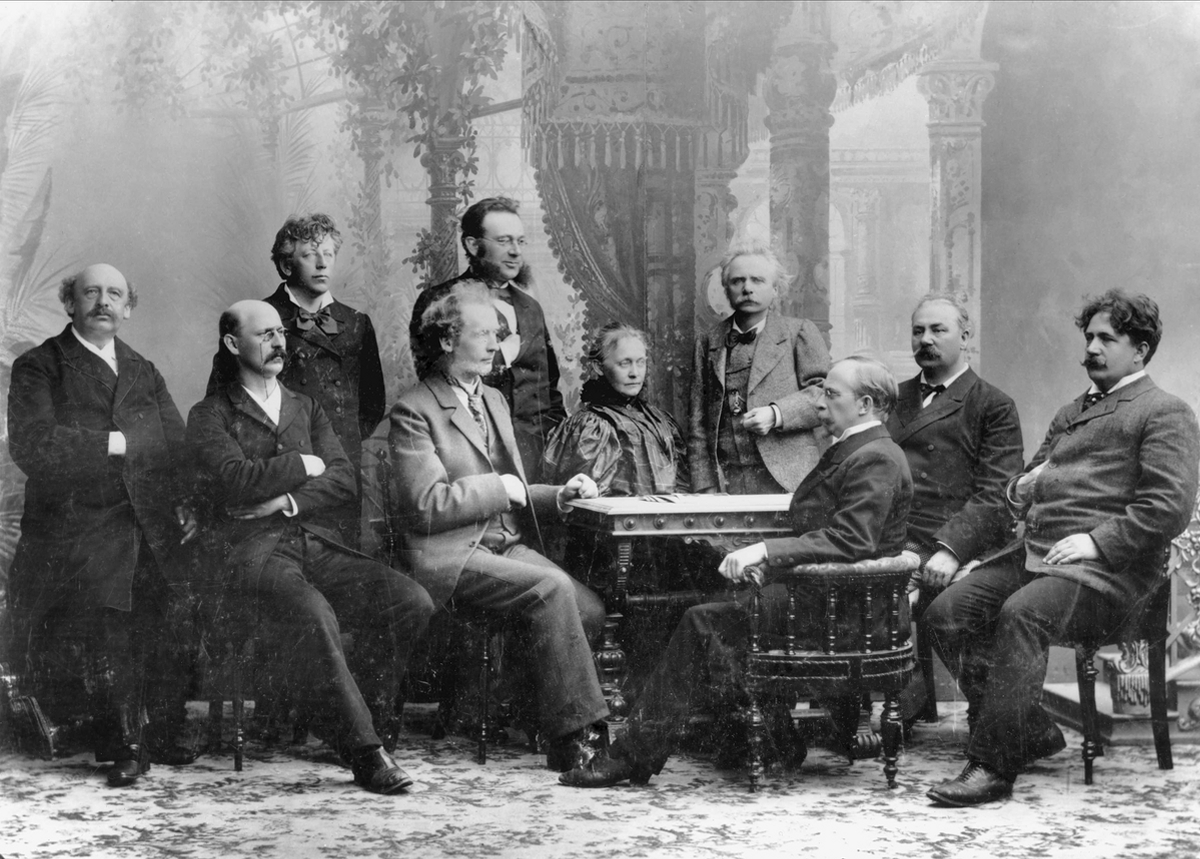 Christian Cappelen, Catharinus Elling, Ole Olsen, Gerhard Rosenkrone Schelderup, Iver Holter, Agathe Backer Grøndahl, Edvard Grieg, Christian Sinding, Johan Svendsen, Johan Halvorsen